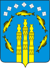 Neryungri (Yakutia), coat of arms